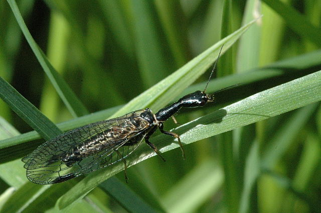 Picture taken in Commanster, Belgian High Ardennes. Species: Phaeostigma notata